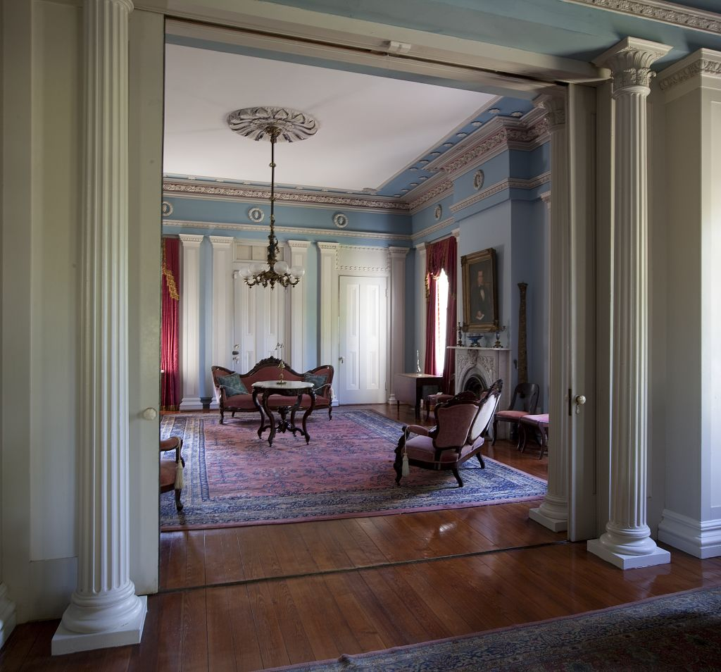 Interior parlor, Sturdivant Hall, Selma, Alabama.